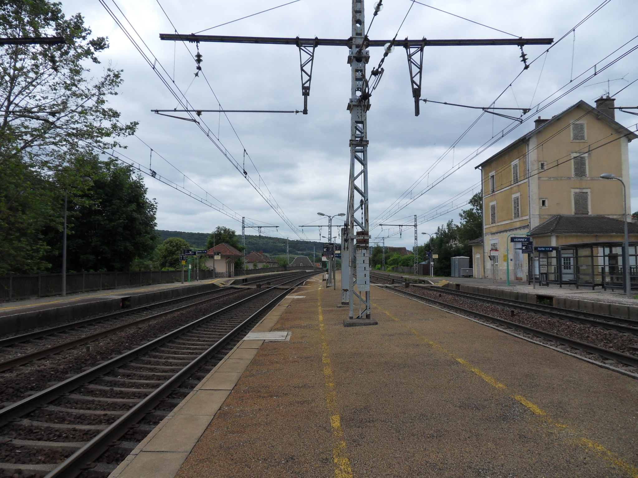 The train station of Verrey-sous-Salmaise, Côte-d'Or, France.